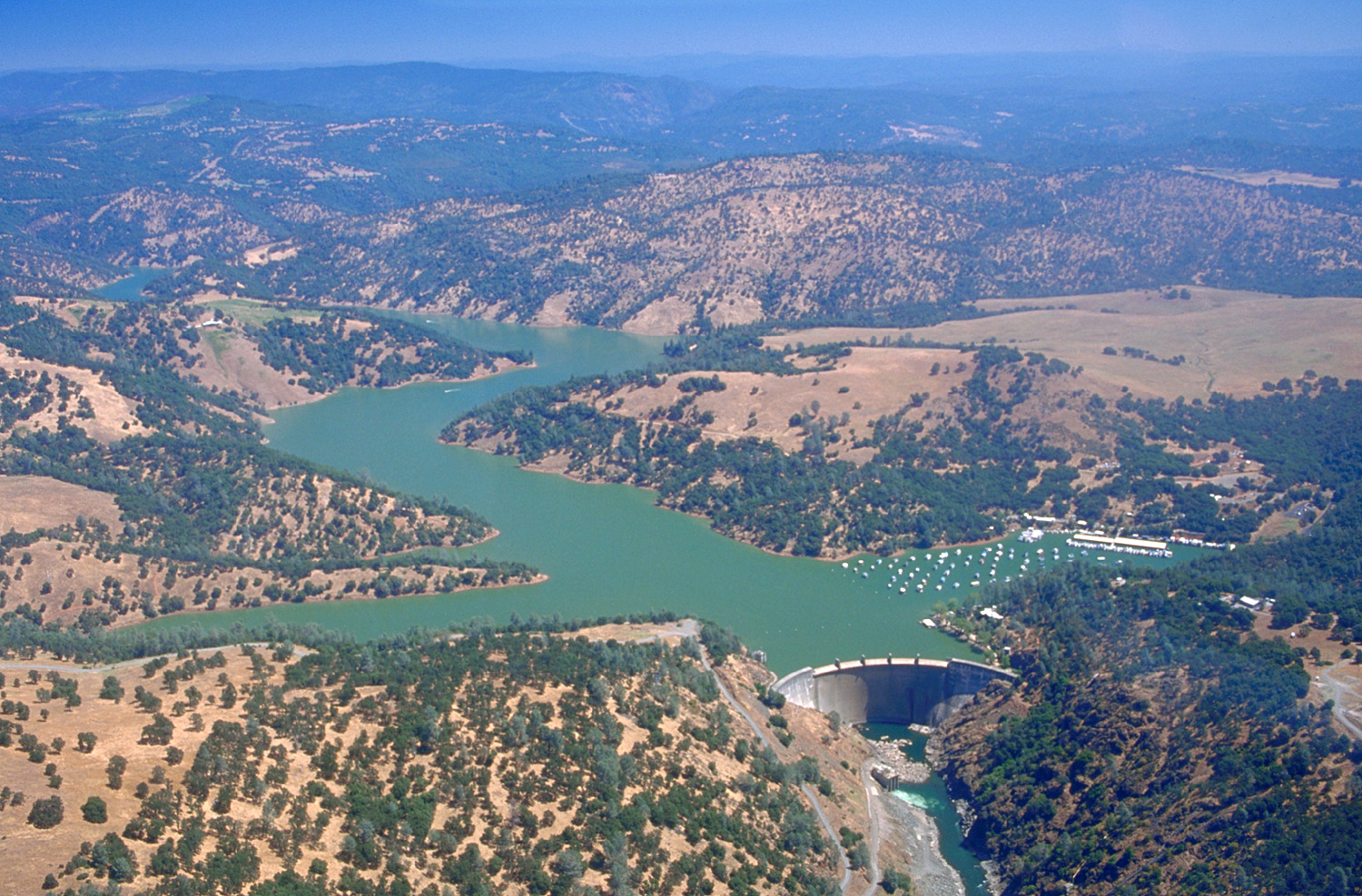 Englebright Dam and Lake on the Yuba River in the state of California, USA. The dam is located approximately 20 miles (32 km) east-northeast of Yuba City, California. The river and dam span the border between Yuba County and Nevada Counties. The dam was constructed in 1941 by the U.S. Army Corps of Engineers for flood control on the Yuba River. Coordinates: 39°14′23.81″N 121°16′10.02″W / 39.2399472°N 121.26945°W